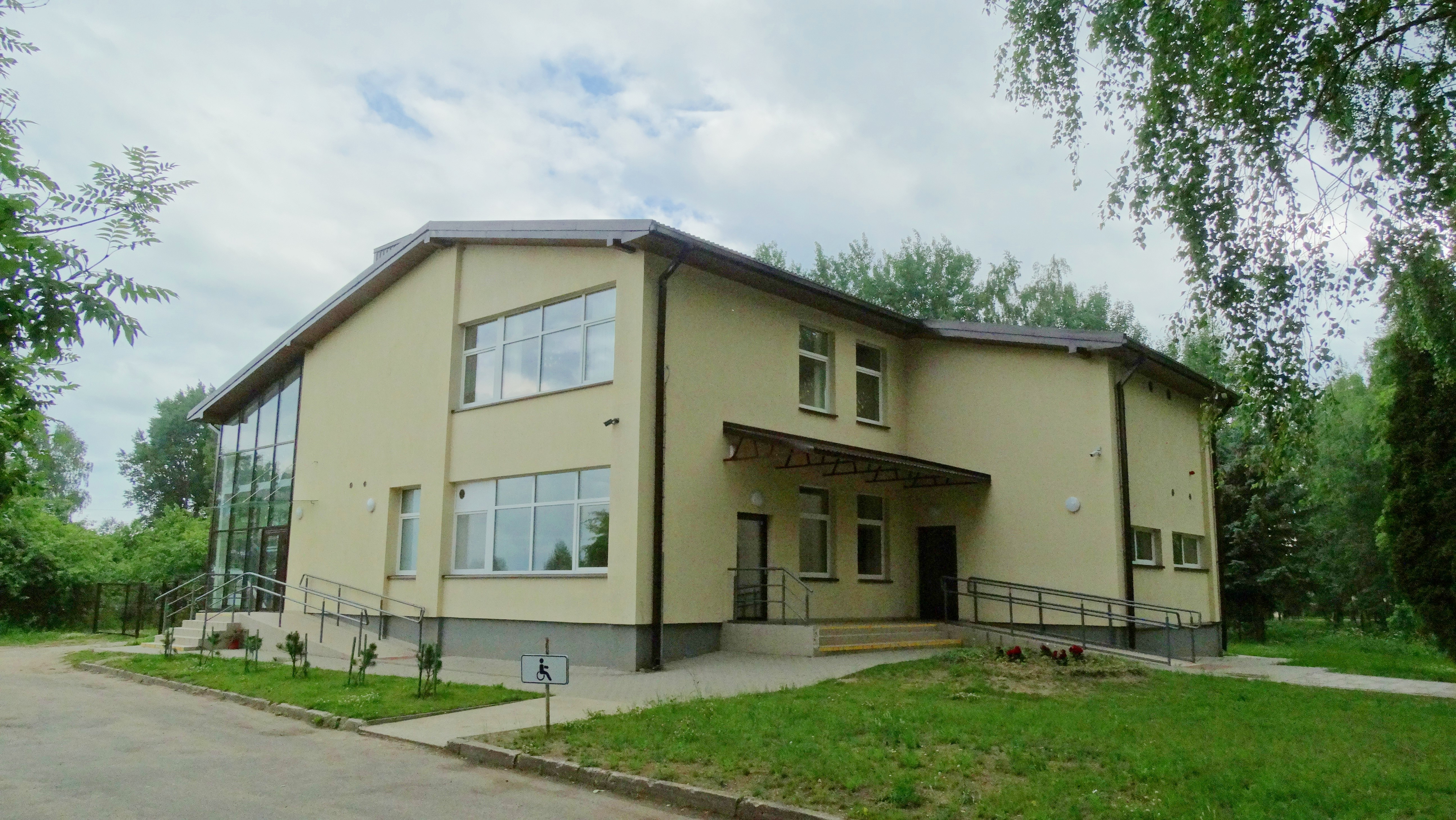 Community house, Bartkuškis, Širvintos District, Lithuania